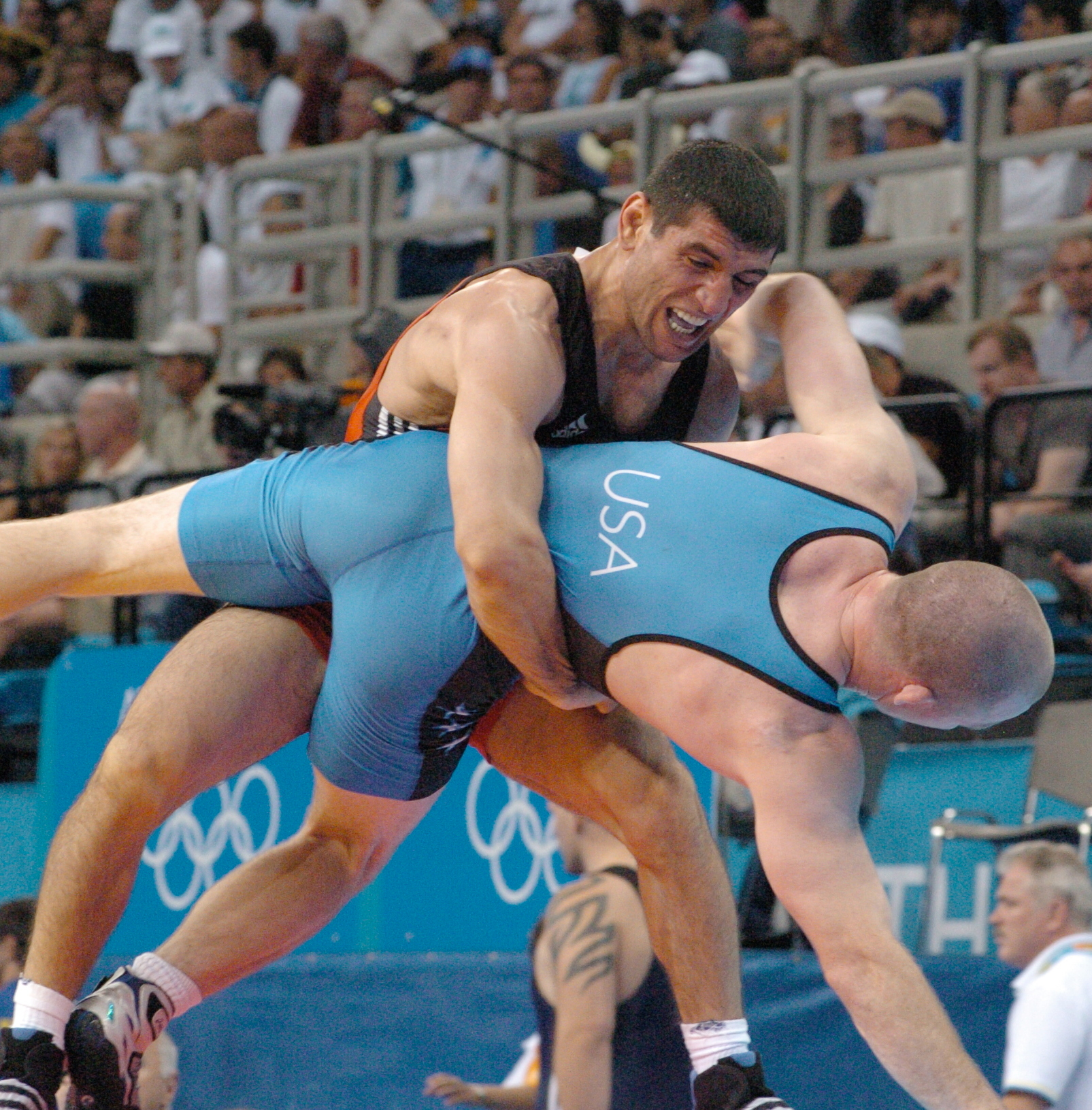 2004 Summer Olympics - Army World Class Athlete Program - FMWRC - U.S. Army - Official Image Archive - Athens Greece - XXVIII Olympiad